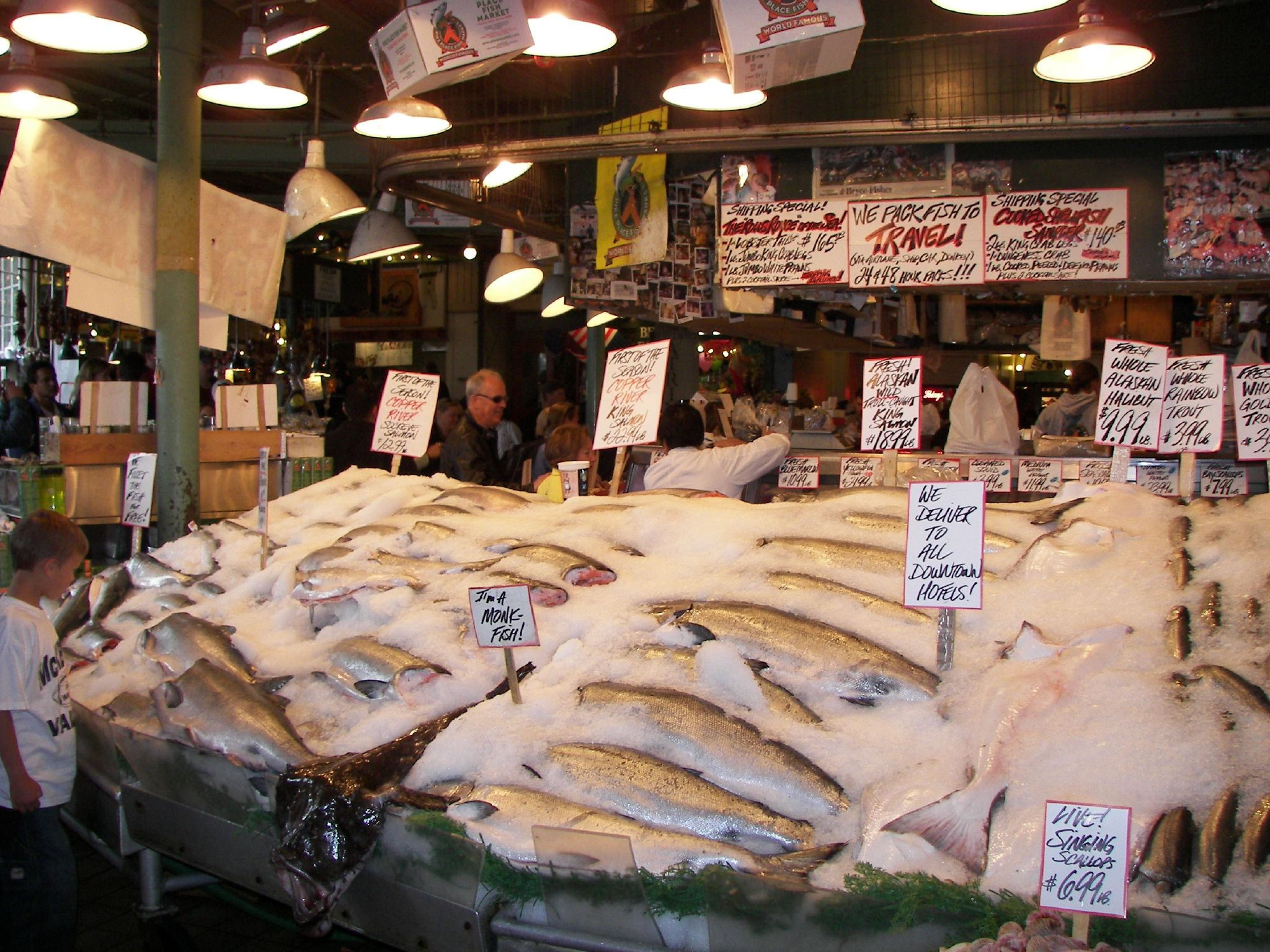 Something smells fishy here...